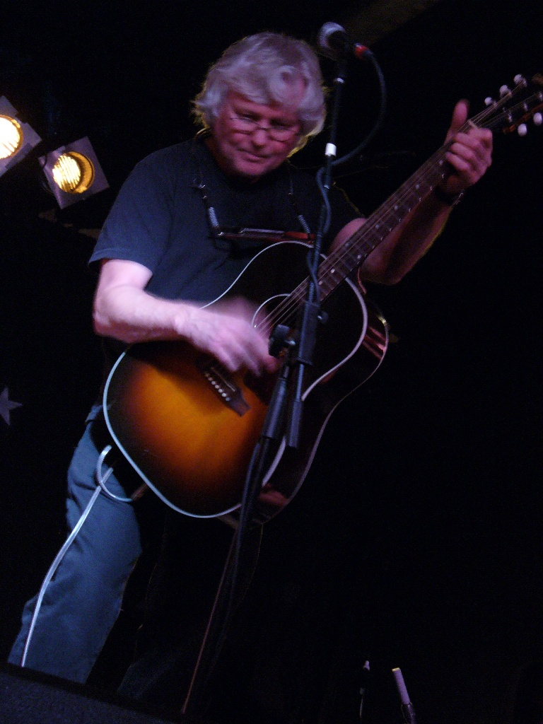 Chip Taylor